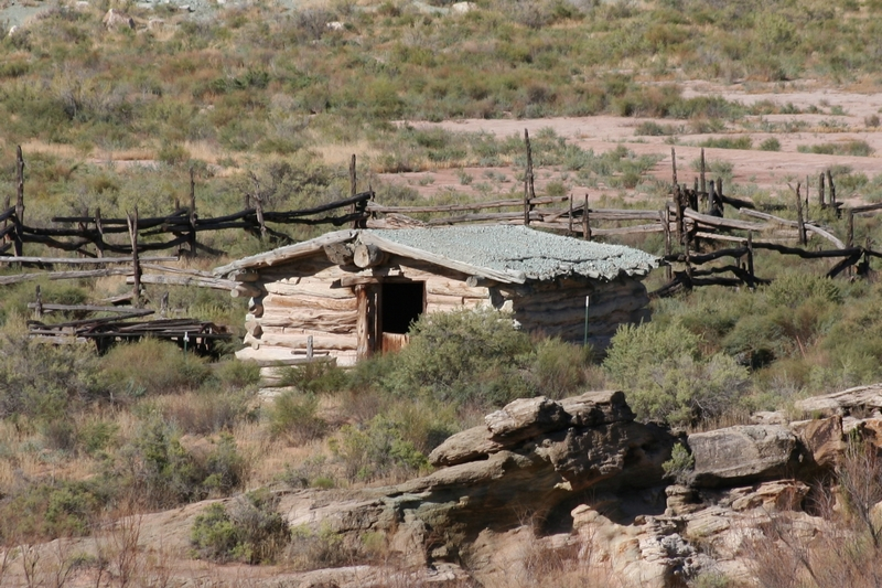 Wolfe Ranch in Arches National Park, Utah